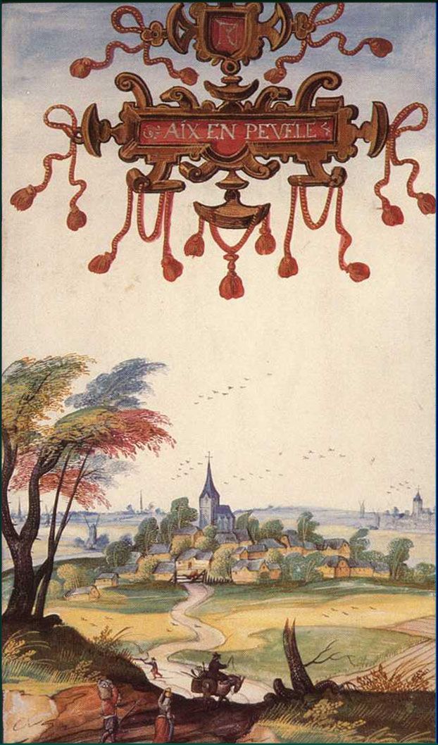 Town of Aix en Pévèle painted by Adrien de Montigny for the Duc Charles de Croÿ (1600)